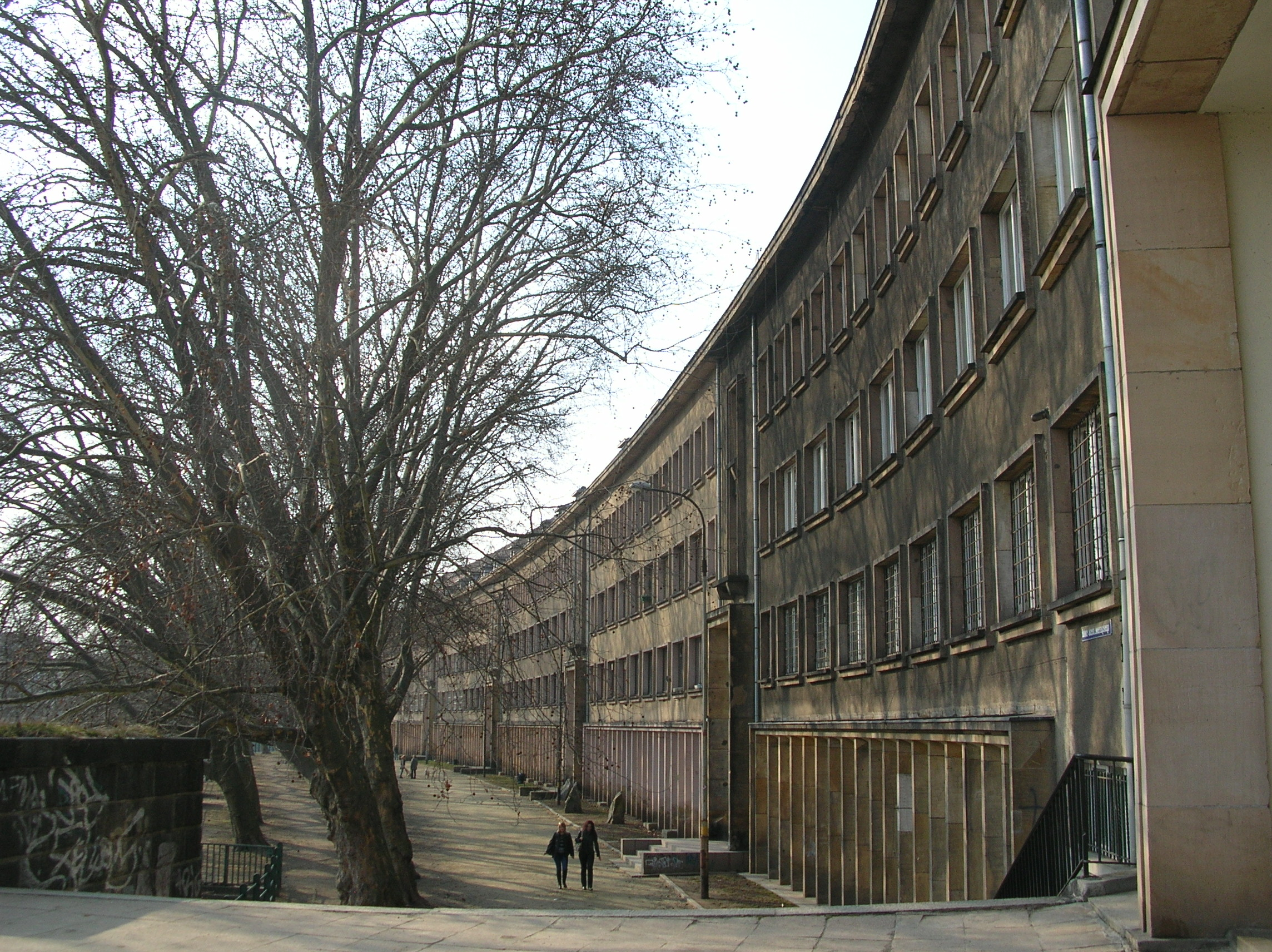 Buiding of the Institute of Geological Sciences (Cybulskiego Street), view from the Zwierzycki Boulevard